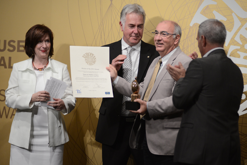 Winner of the European Museum of the Year Award 2012 is the Madinat al-Zahra Museum in Cordoba, Spain